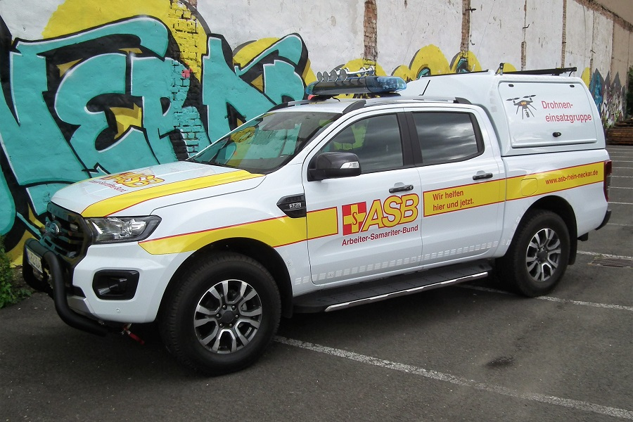 Ford Ranger as emergency response vehicle of the drone response unit of ASB Mannheim/Rhein-Neckar